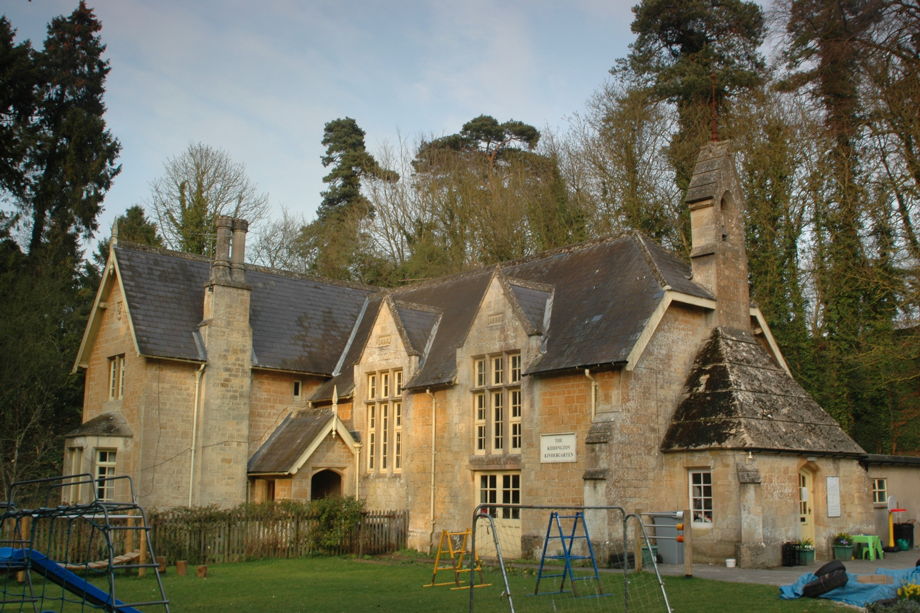 Kindergarten and former parish school at Kiddington, Oxfordshire